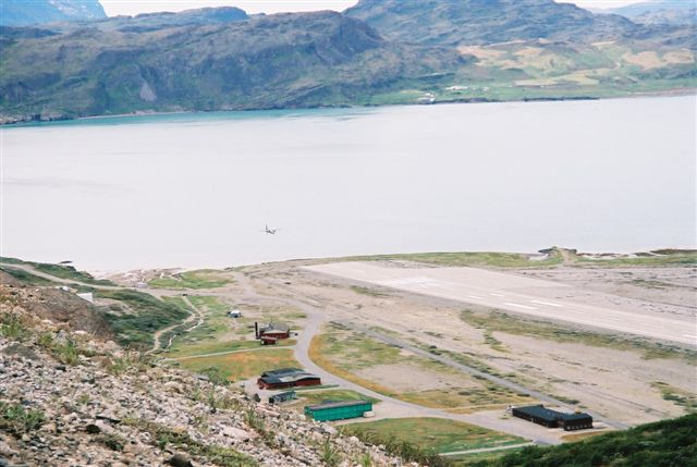 Narsarsuaq airport from signal hill - aircraft on approach.